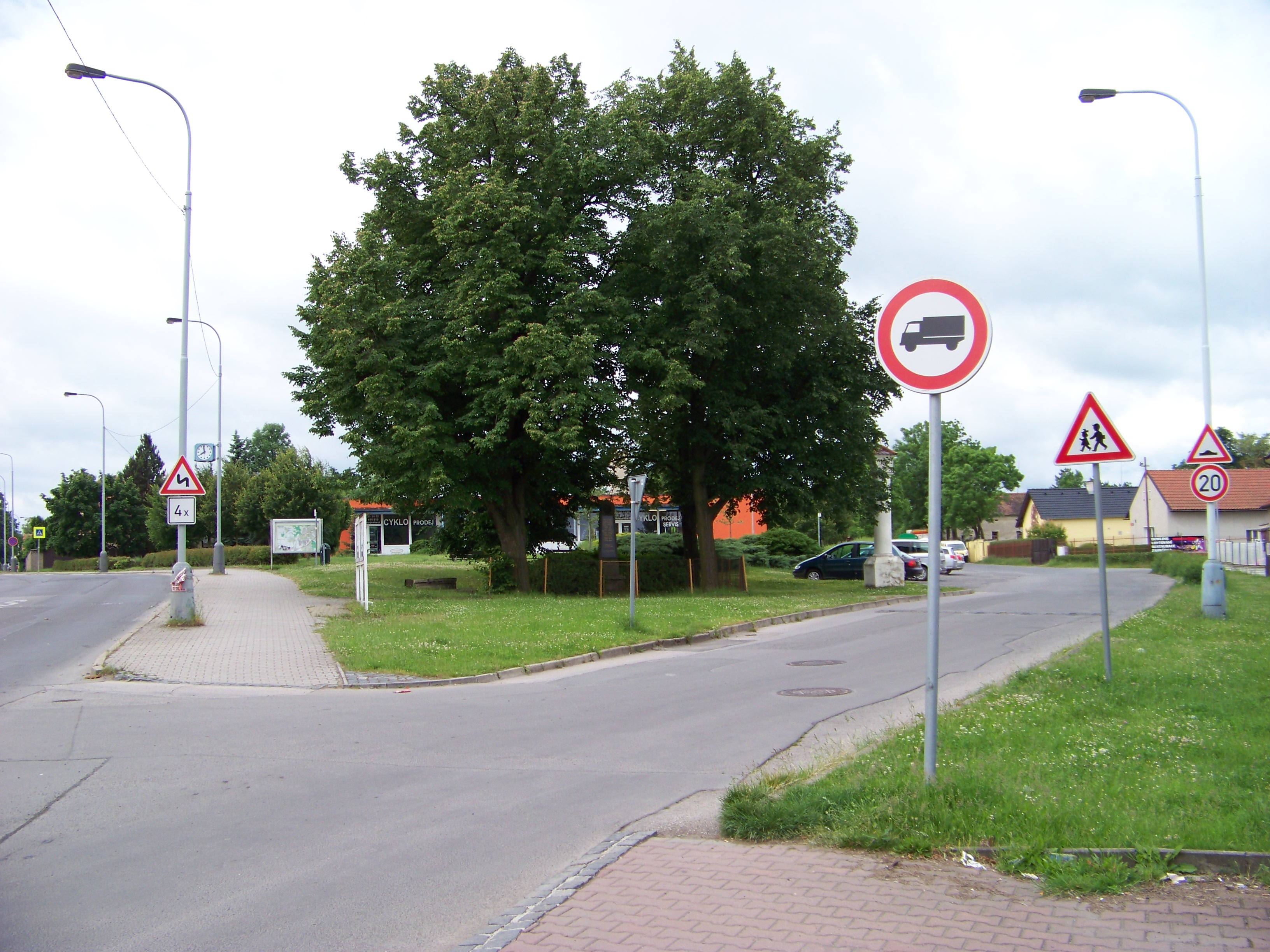 Prague-Písnice, Czech Republic. Libušská and K Vrtilce street, a common with a WWI memorial and a wayside shrine.